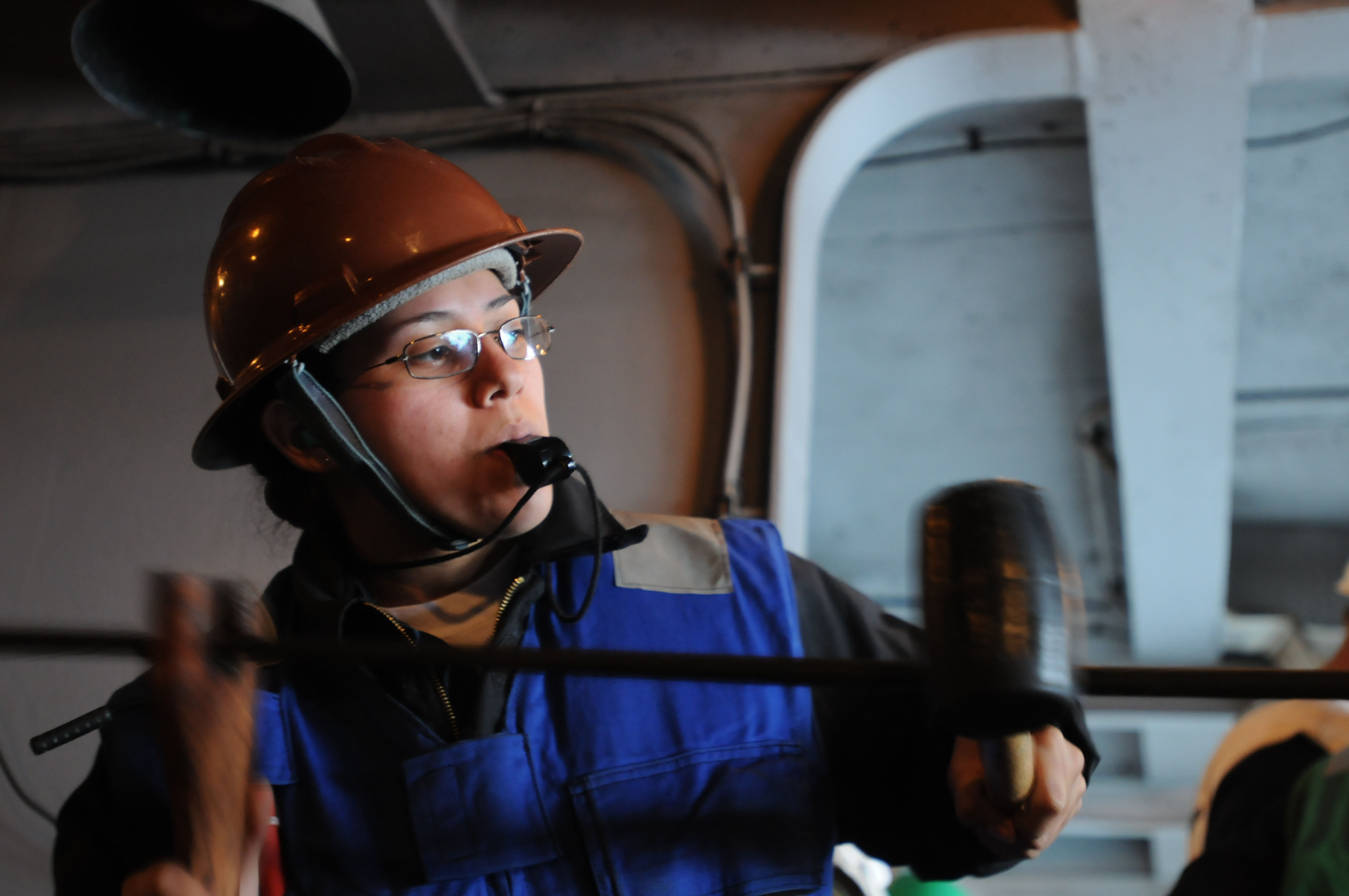 U.S. Navy Seaman Sarah Hernandez applies tension to a cable in fuel station 15 aboard the aircraft carrier USS Ronald Reagan (CVN 76) in the Pacific Ocean on March 21, 2009. After the Reagan connected to guided-missile cruiser USS Chancellorsville (CG 62), wire-cable winches were used to hoist the fueling pump between the ships. The Reagan is underway conducting sustainment exercises.